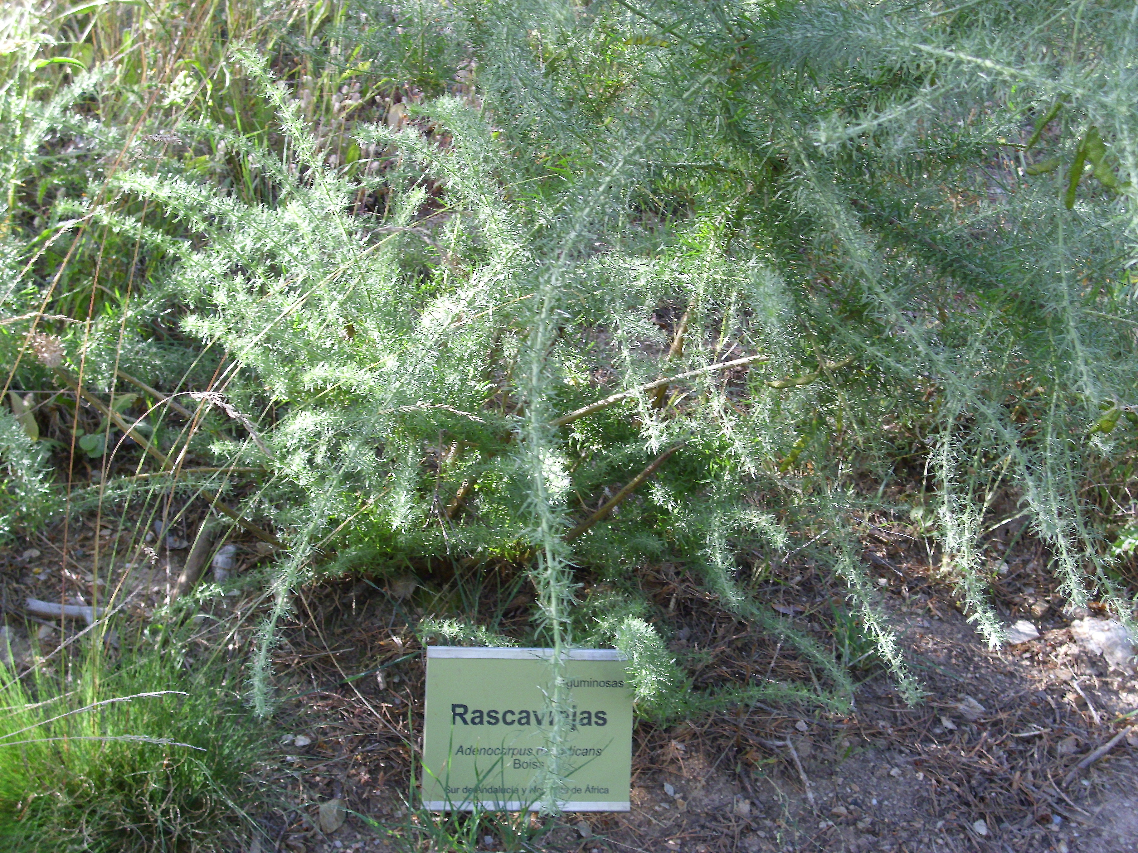 Adenocarpus decorticans habit, Sierra Nevada, Spain